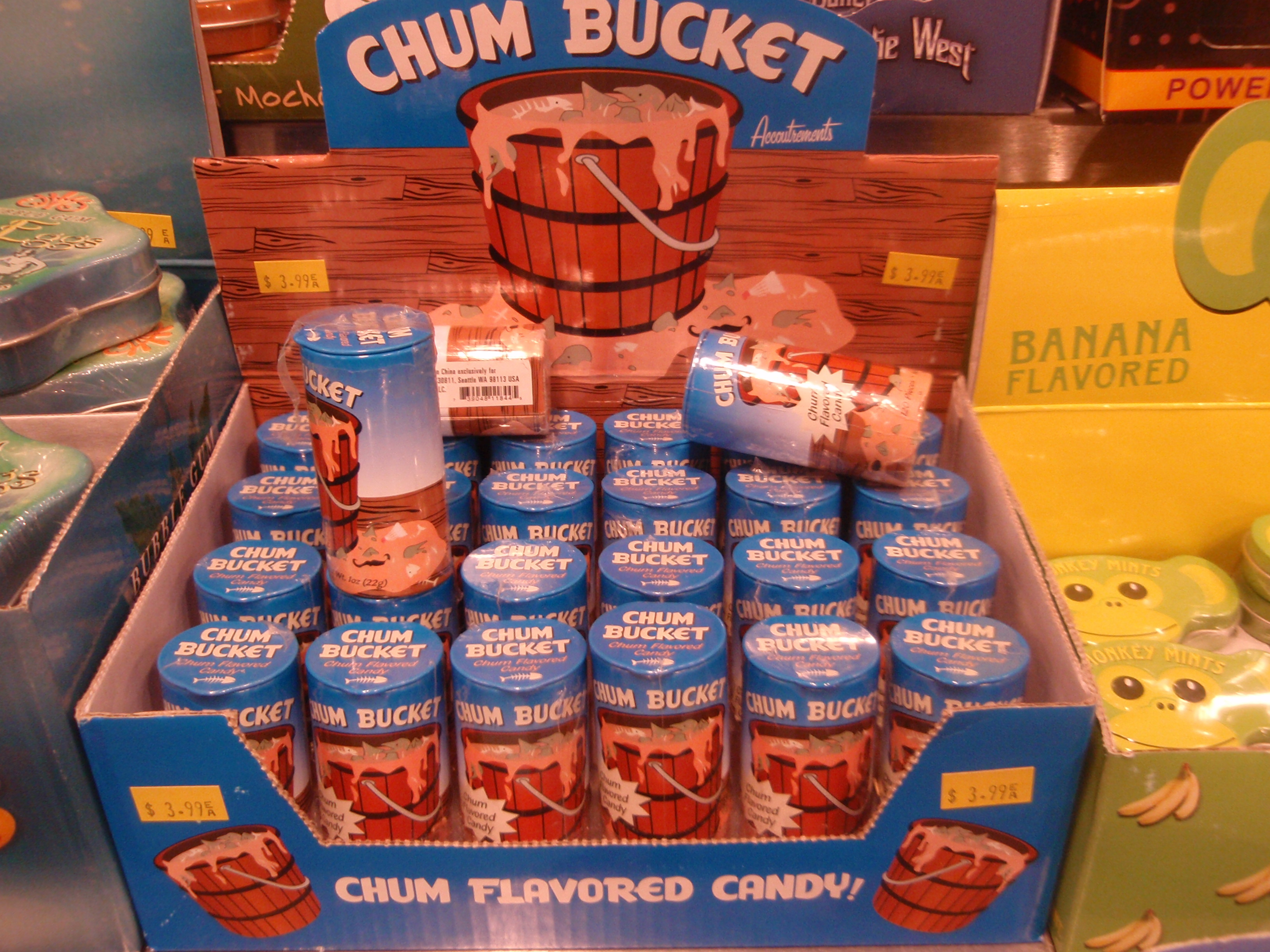 Chum flavoured candy? I'm afraid to even try it.